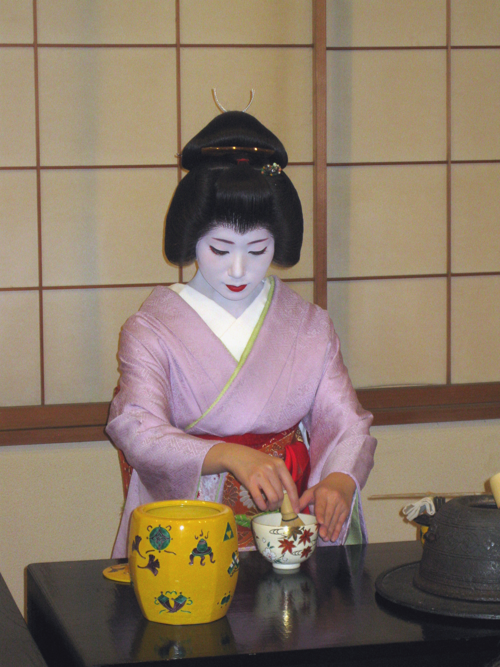 Geiko Mamechiho preparing tea